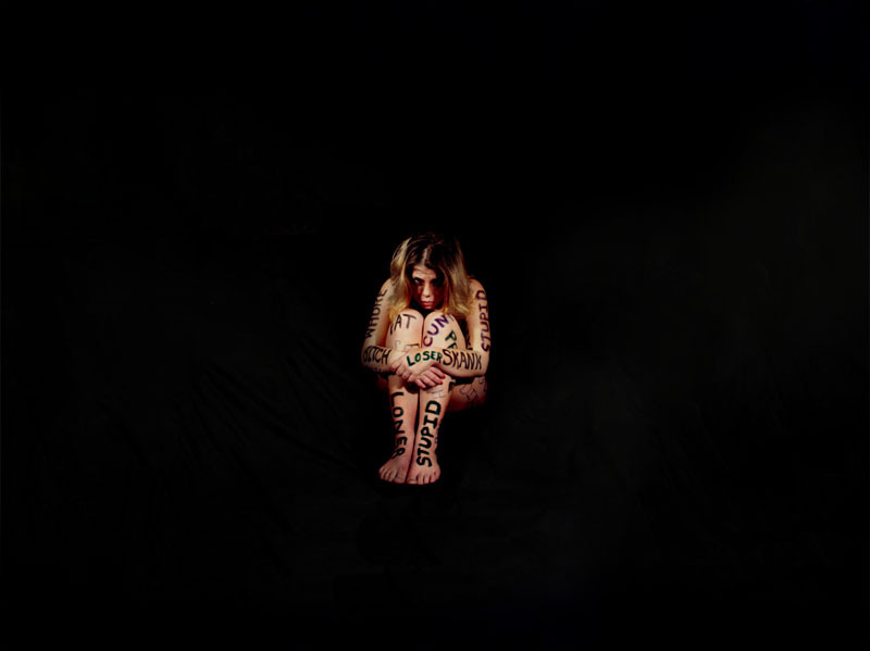 by Syberpat